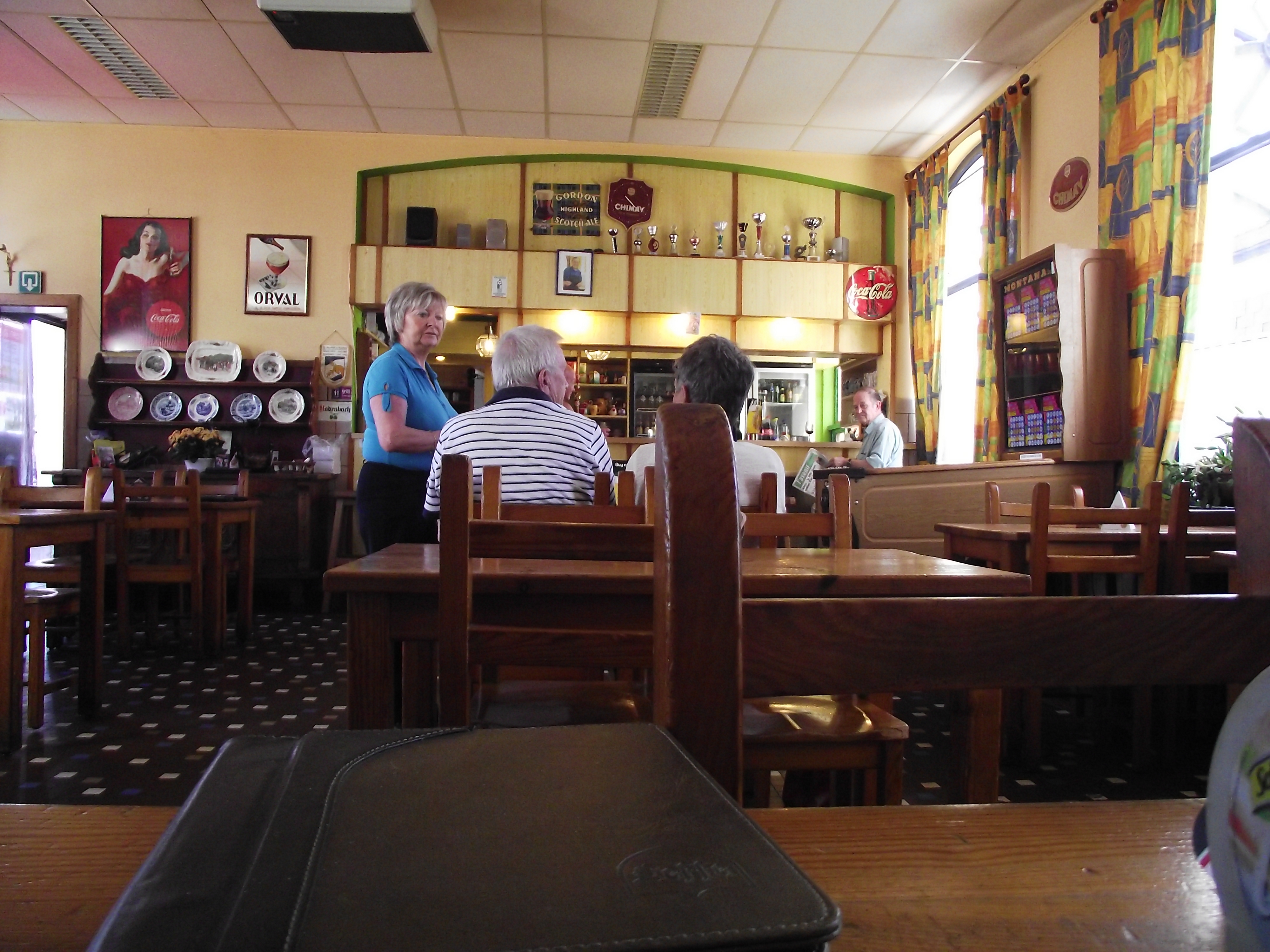 The station restaurant in Libramont station